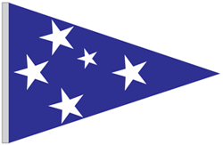 Heraldic registered burgee of the Mossel bay Yacht and Boat Club.